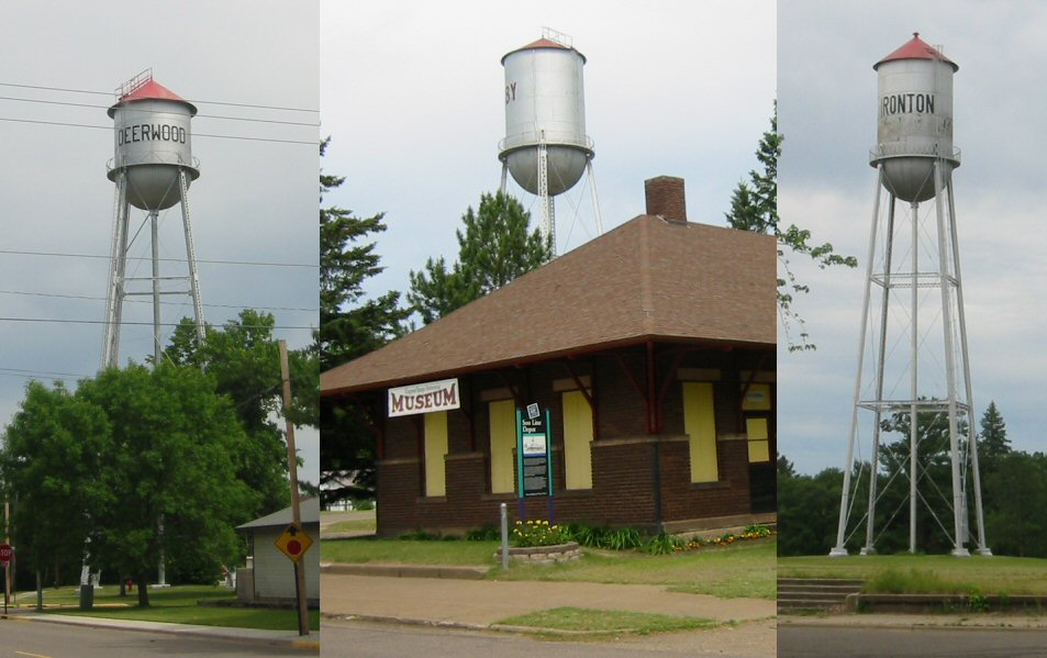 Three water towers within the Cuyuna Iron Range Municipally-Owned Elevated Metal Water Tanks in northern Minnesota. These water tanks are listed on the National Register of Historic Places. The tanks are from Deerwood, Minnesota, Crosby, Minnesota, and Ironton, Minnesota.